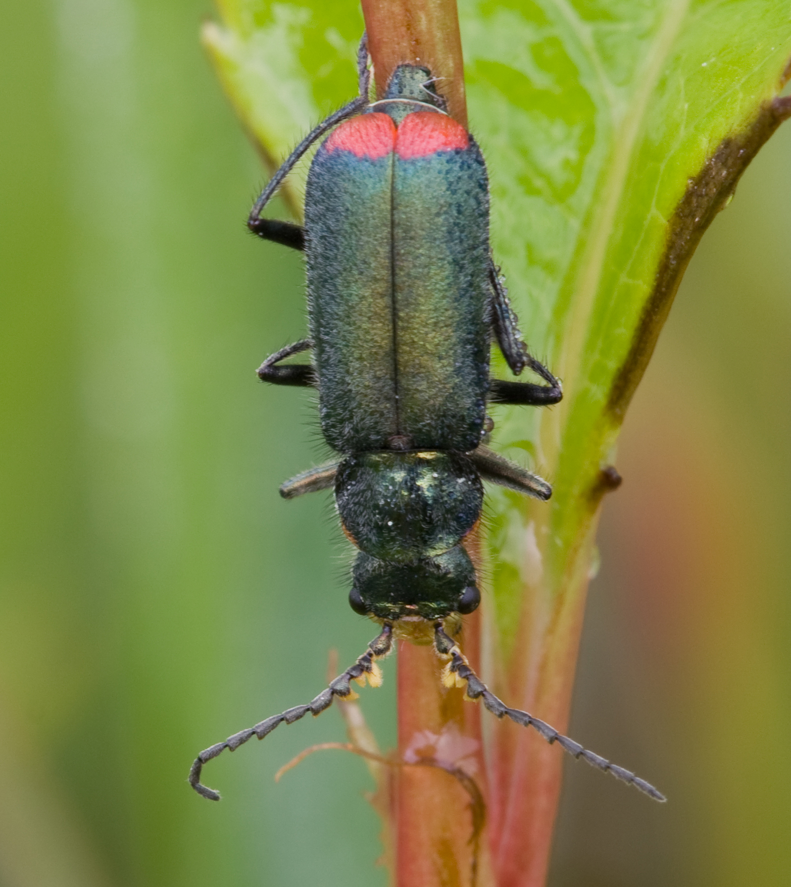 Malachius bipustulatus, male / Wahner Heide, North Rine-Westphalia